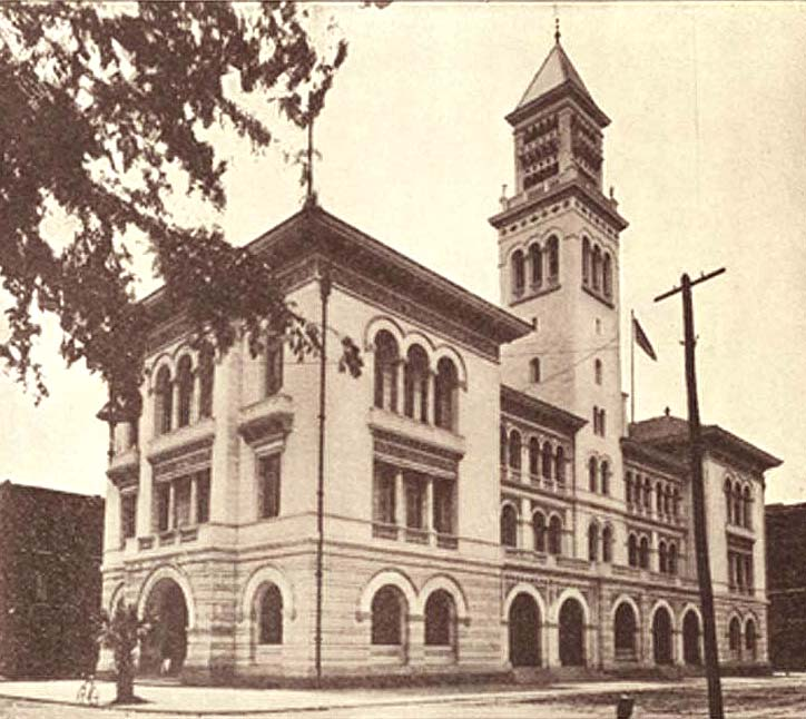 U.S. Post Office and Court House (1901; 1932) Completed in 1899. Supervising Architect: Jeremiah O’Rourke Extension completed in 1932. Supervising Architect of extension: James A. Wetmore Still in use by the U.S. District Court for the Southern District of Georgia. Renamed the Tomochichi United States Courthouse in 2005.